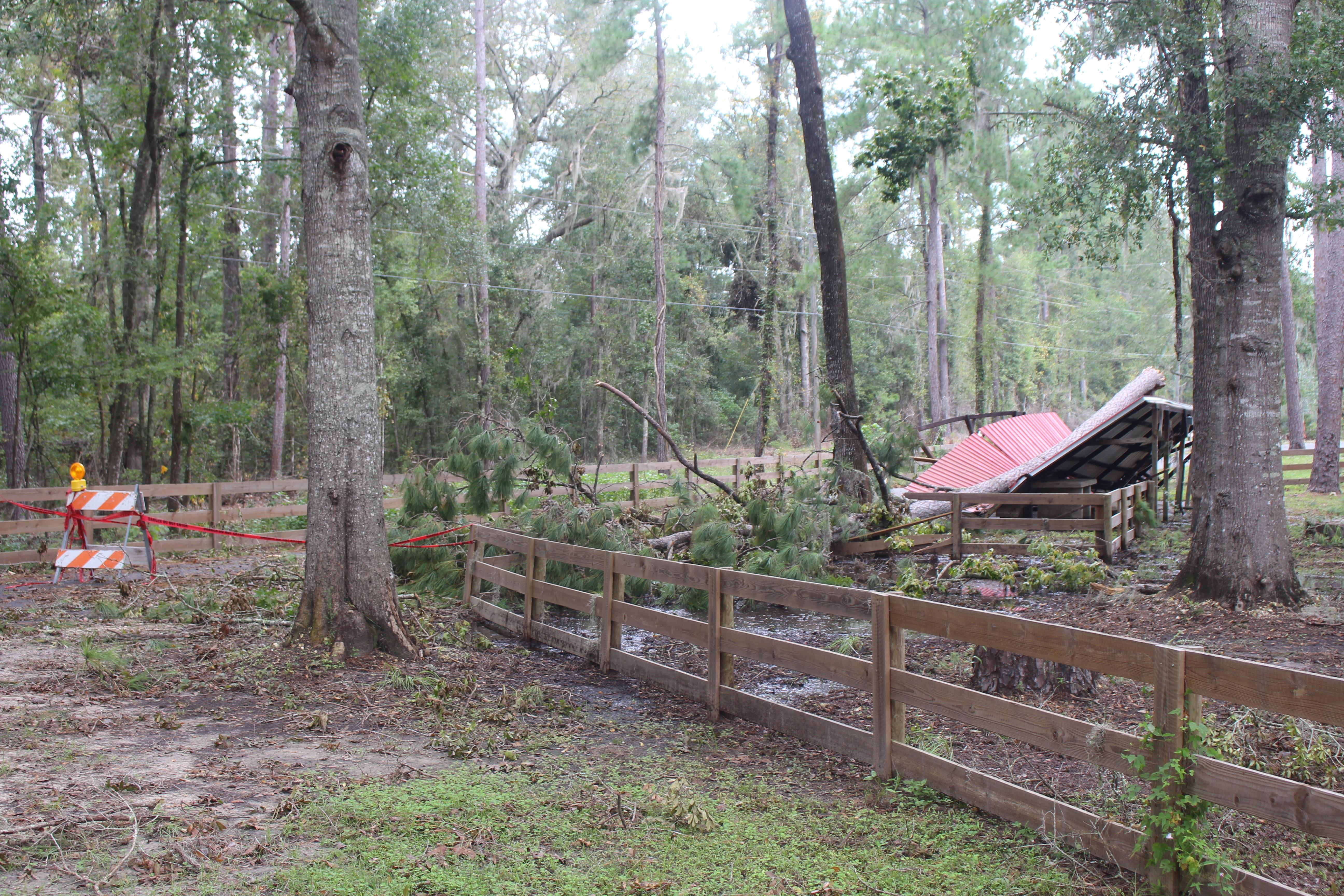 Gibson Park, Suwannee County, Florida